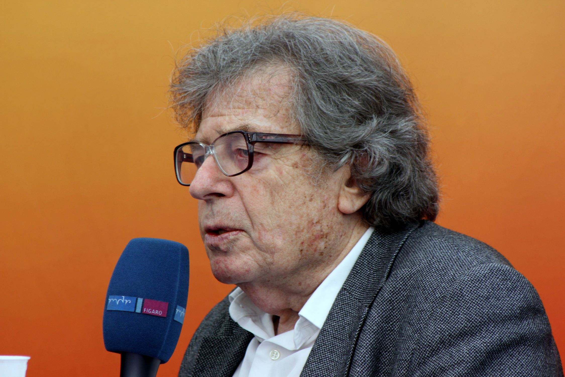 György Konrád, Leipzig Book Fair 2013